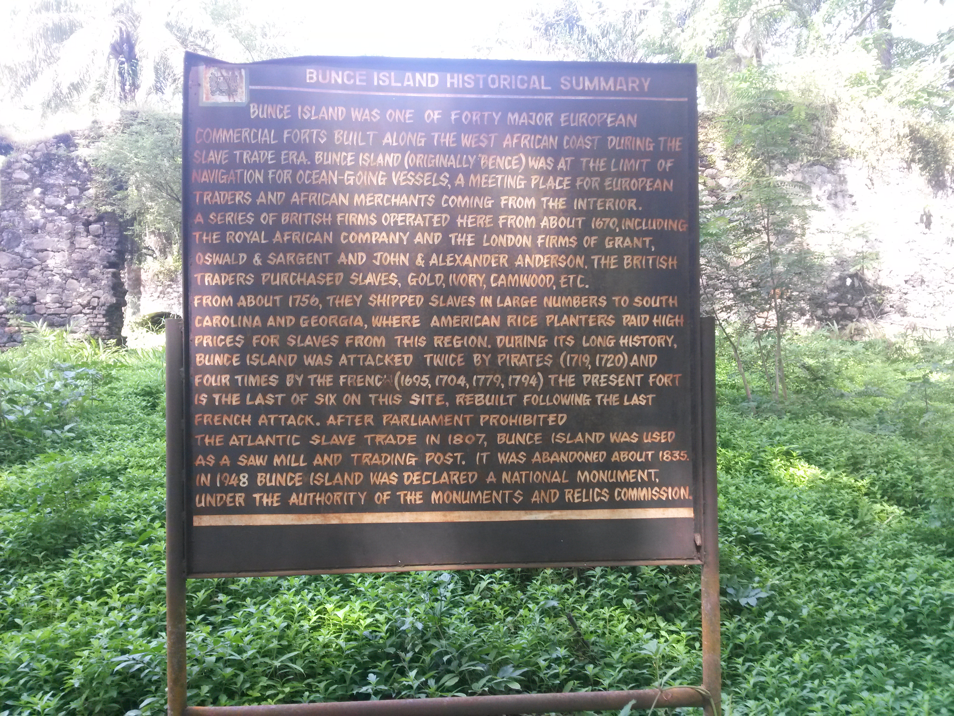 Text on the panel: Bunce Island was one of the forty major European commercial forts built along the West African coast during the slave trade era. Bunce Island (originally Bence) was at the limit of navigation for ocean-going vessels, a meeting place for European traders and African merchants coming from the interior. A series of British firms operated here from about 1670, including the Royal African Company and the London Firms of Grant, Oswald & Sargent and John & Alexander Anderson. The british traders purchased slaves, gold, ivory, camwood, etc. From about 1756, they shipped slaves in large numbers to South Carolina and Georgia, where American rice planters paid high prices for slaves from the region. During its long history, Bunce Island was attacked twice by pirates (1719, 1720) and four times by the French (1659, 1704, 1779, 1794. The present fort is the last of six on this site, rebuilt following the last French attack. After parliament prohibited the Atlantic slave trade in 1807, Bunce Island was used as a saw and mill and trading post. It was abandonned about 1835. In 1948 Bunce Island was declared a national monument. Under the Authority of the Momuments and Relics Commission.